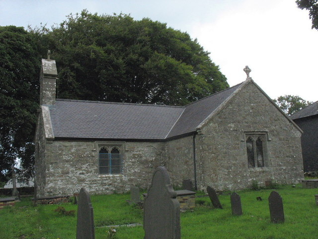 Eglwys Gallgo Sant/St Gallgo Church, Llanallgo, near to Llanallgo, Isle of Anglesey/Sir Ynys Mon, Great Britain. Gallo, who founded this church early in the 6thC, was the son of Caw, a Pictish king, and brother of St Gildas and St Eugrad. Like many other old churches in Anglesey it underwent much restoration in Victorian time. It also became famous in the wake of the Royal Charter disaster of 1859 when 140 of the victims were buried in its churchyard. Charles Dickens visited the area and wrote about the disaster. During his visit Dickens stayed at the rectory with the vicar, the Rev. Stephen Roose Hughes